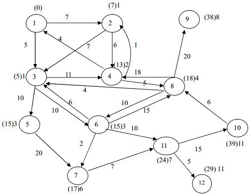 Example Dijkstra's algorithm sequential